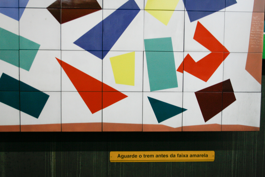 Project